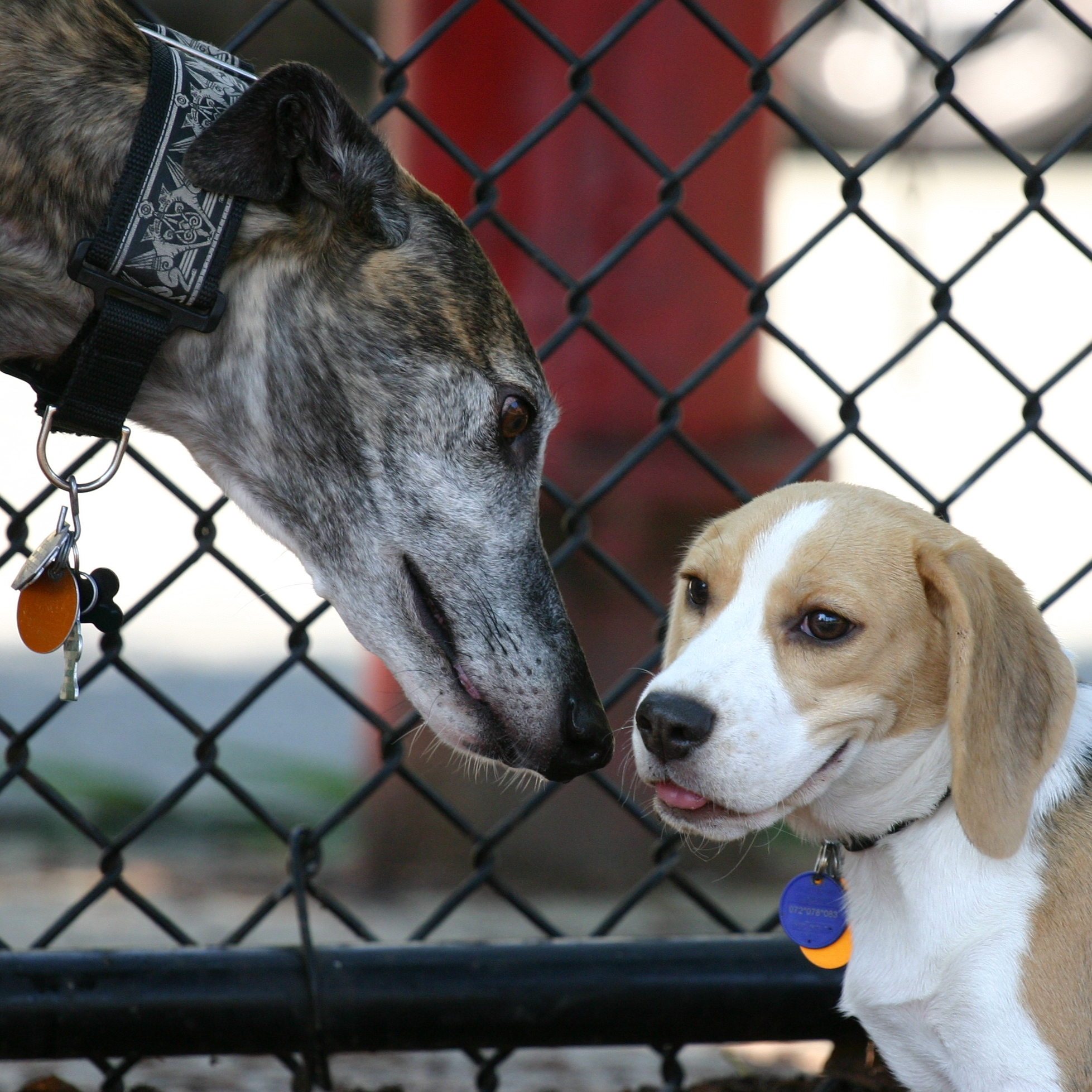 Beagle puppy meets greyhound. Comment of flickr: If you liked this photo which is free for commercial or non-commercial use, consider leaving a tip.